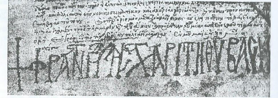 Francisca Acciaiuoli, wife of Carlo I Tocco despot of Epirus